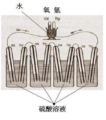 Chinese version of File:1839 William Grove Fuel Cell.jpg